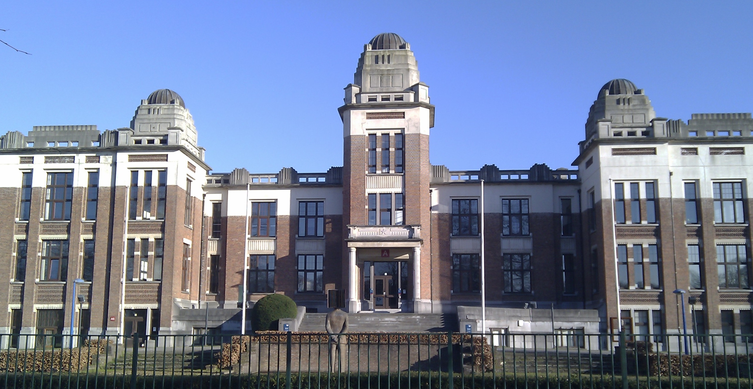 Photo of the main building (building A) of campus Middelheim.